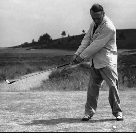 A circa 1920 photograph of Percy Boomer, at the beginning of the backswing.